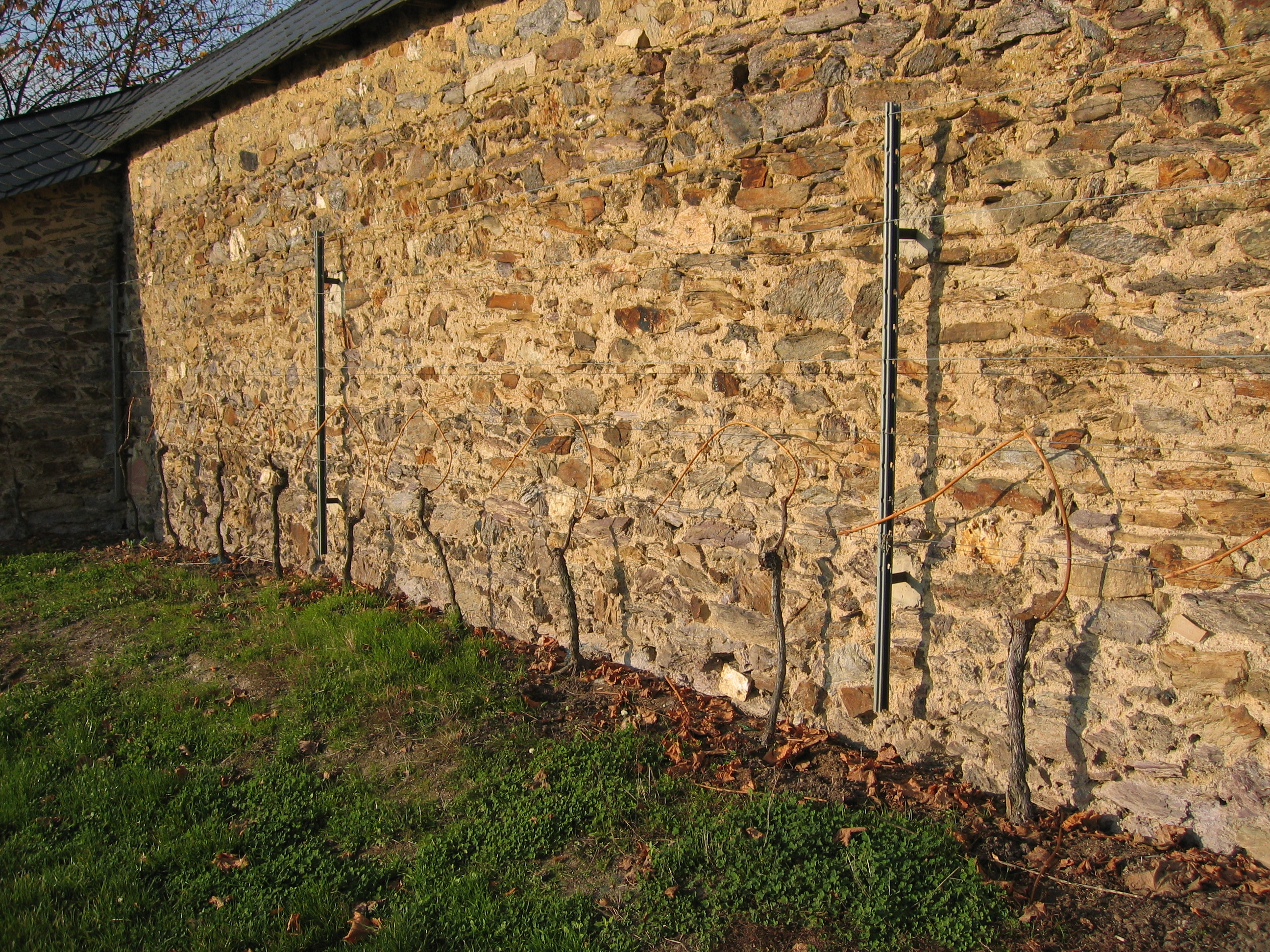 Steinberg vineyard near Hattenheim and Eberbach Abbey in Rheingau, Germany